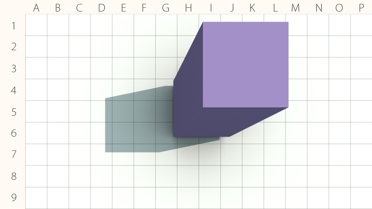 MotionParallax3D display - screen image